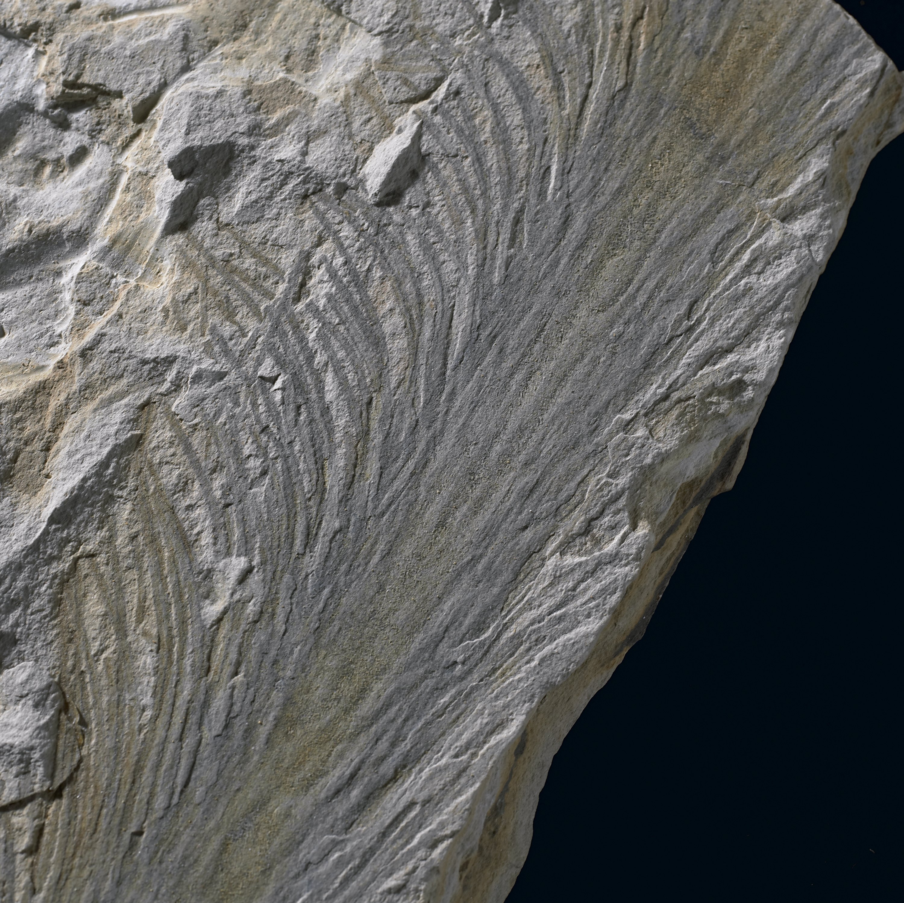 Baragwanathia longifolia, fossil club moss. Registration no. P 15129.